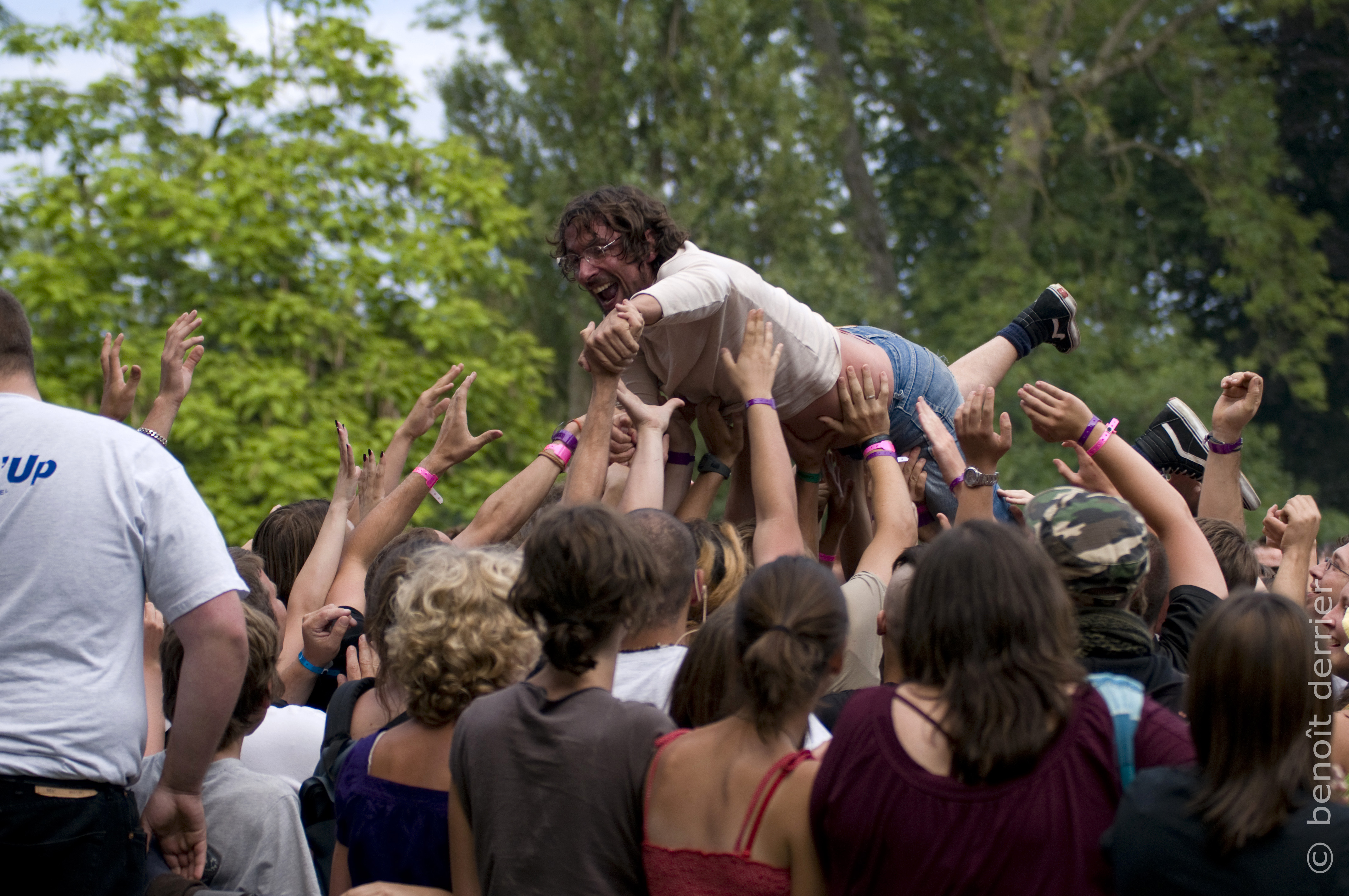 Didier Super live at Aux Zarbs festival 2008 (Auxerre, France).